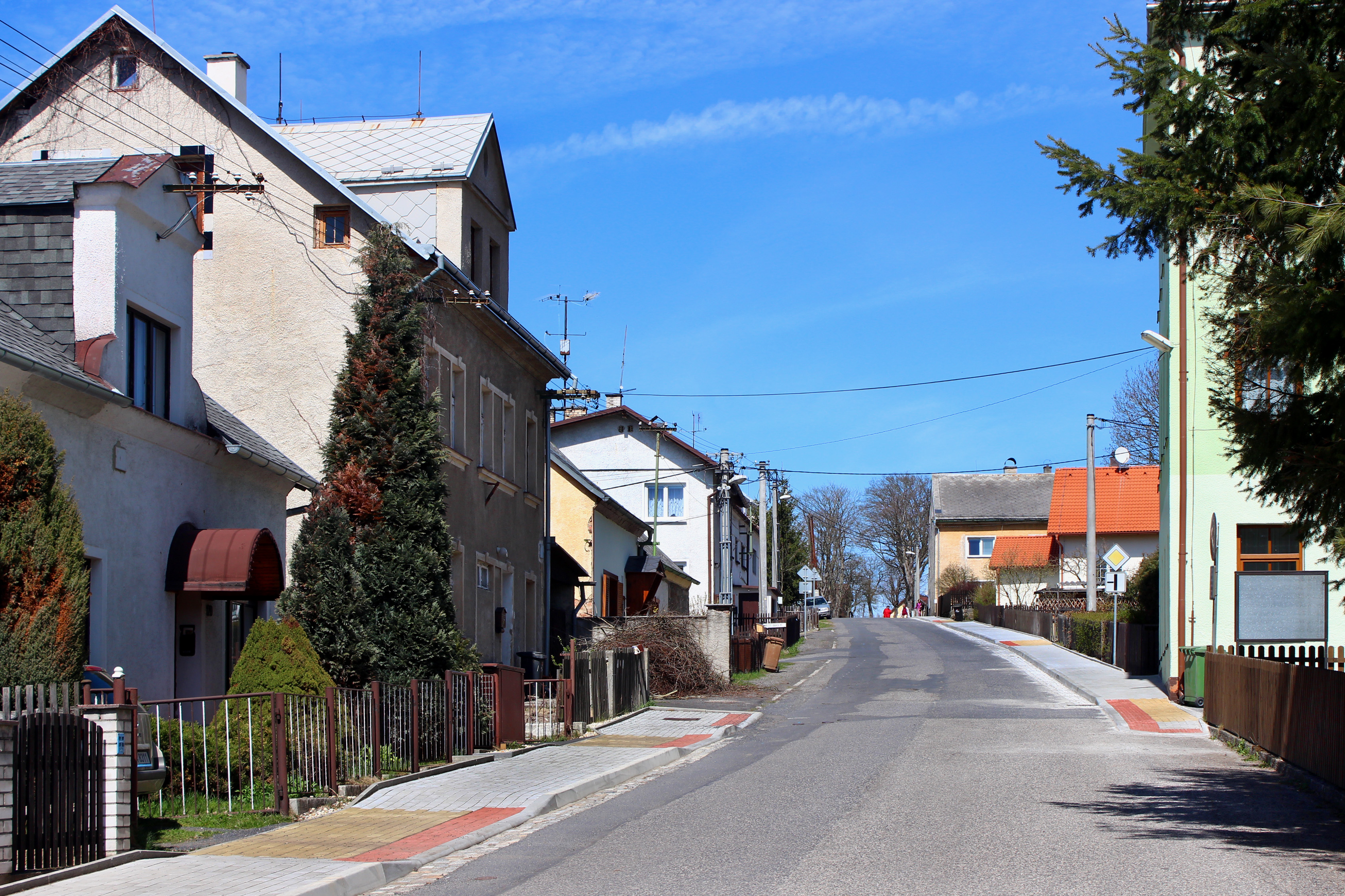 Upper part of Pila village, Czech Republic